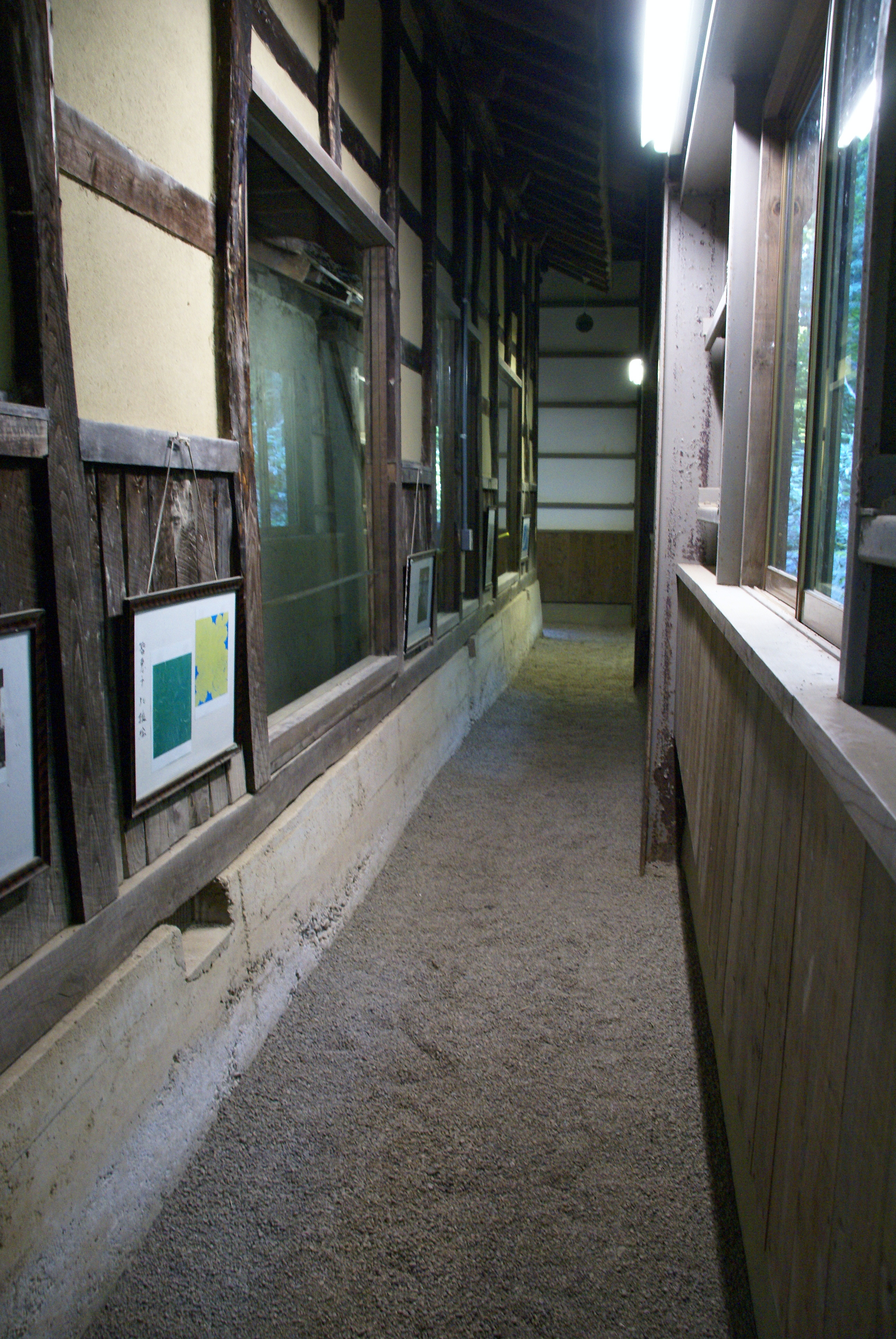 Takamura Sanso (lodge) in Hanamaki, Iwate prefecture, Japan